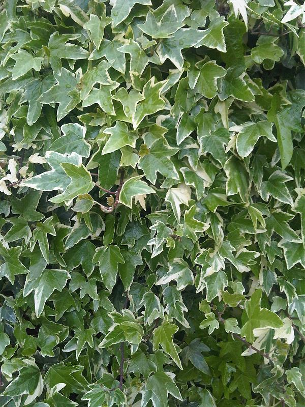 Perhaps Algerian Ivy (Hedera algeriensis; syn. Hedera canariensis var. algeriensis Willd) leaves in Kew Gardens, London, England.